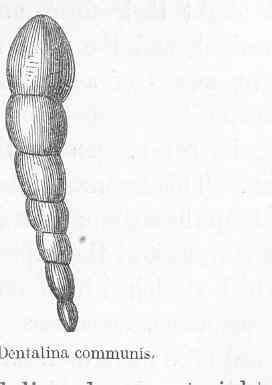 Dentalina commonis Subject: Foraminifera, Dentalina Tag: Invertebrates